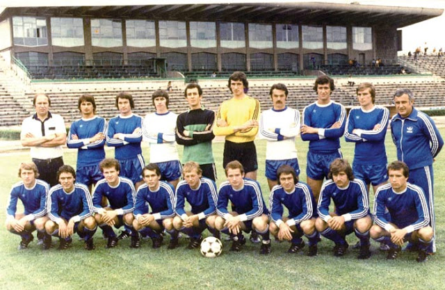 Universitatea Craiova squad 1980-1981 Divizia A season.